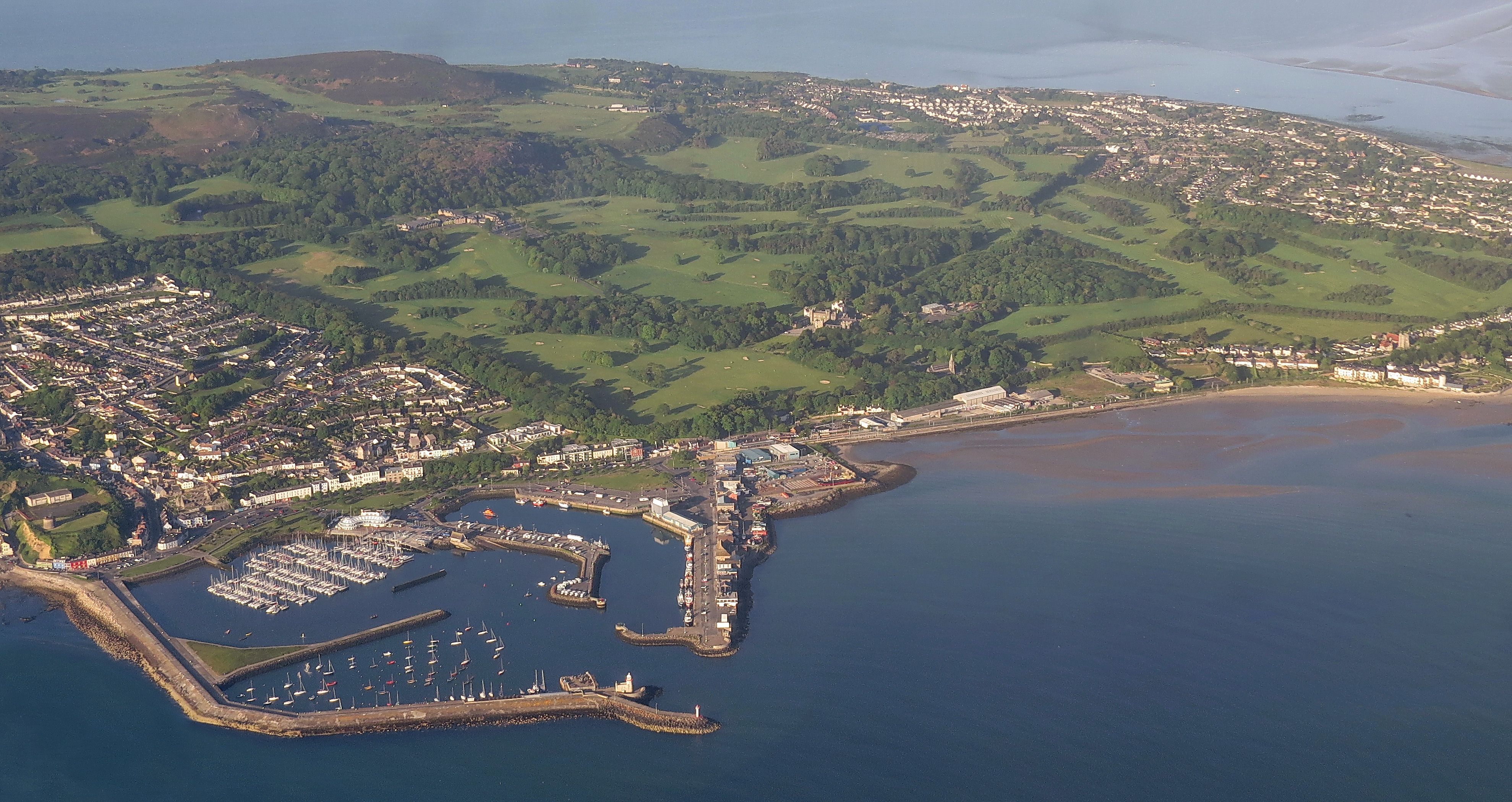 Howth Harbour, Co. Fingal, Ireland